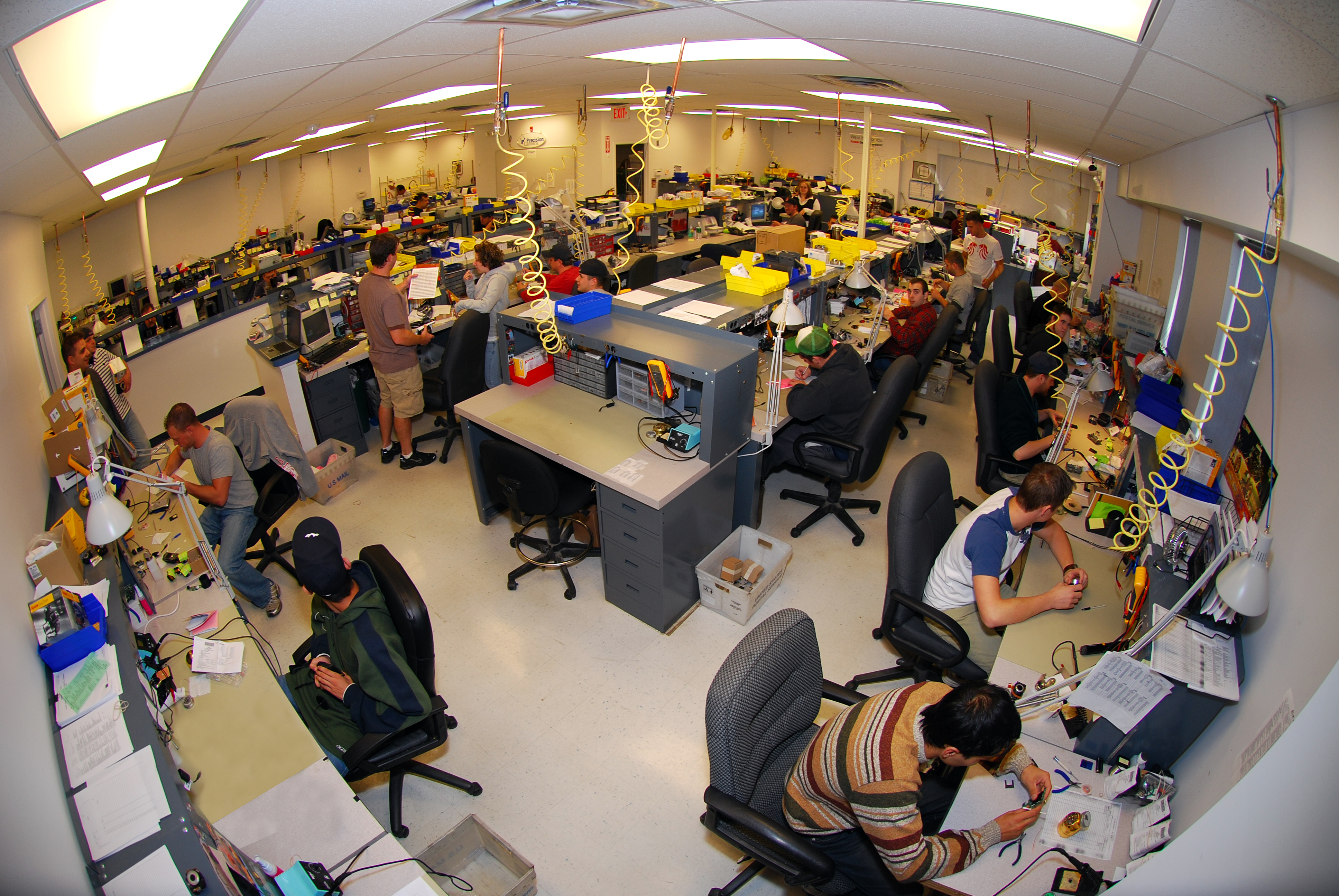 A view of a repair facility at the Precision Camera and Video Repair headquarters in Enfield, CT.